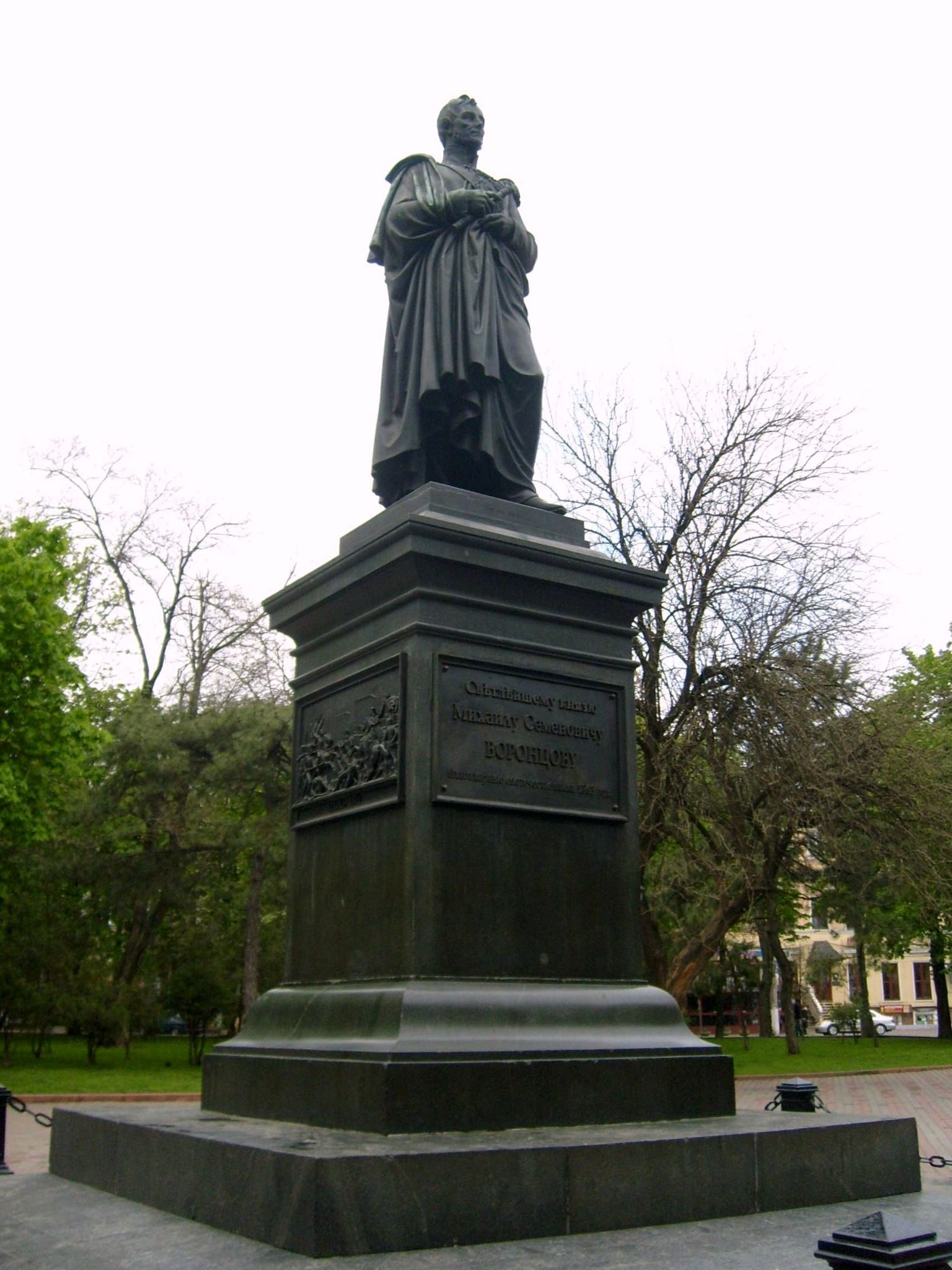 Mikhail Semyonovich Vorontsov monument in Odessa